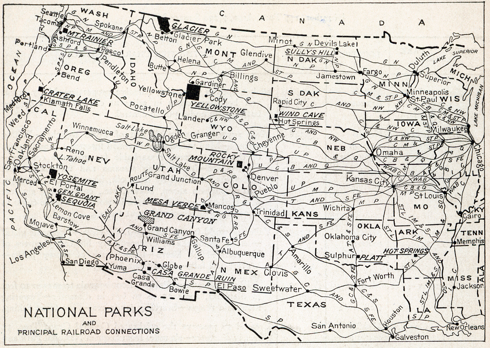 The map shows the location of all the National Parks and their principal railroad connections as of 1916.